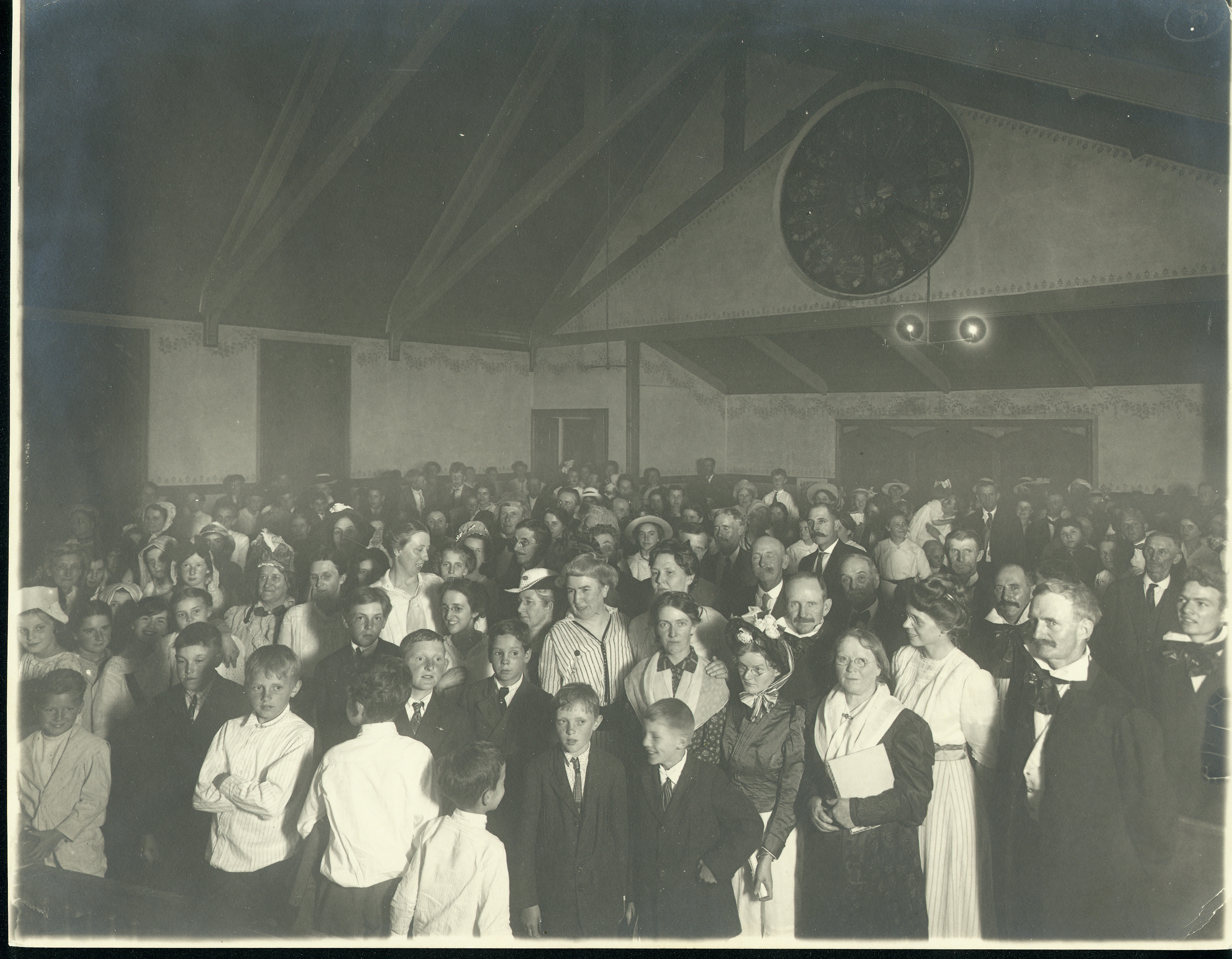 Collection: Human Ecology Historical Photographs Title: Singing school conducted at Jacksonville as part of six-day Extension school in August, 1915. Photo used in Cornell Reading Course for the Farm Home, Vol. IV, No. 93, Fig. 62. Collection #23-2-749, item PR-EM-05 Div. Rare & Manuscript Collections, Cornell University Library Persistent URI: There are no known U.S. copyright restrictions on this image. The digital file is owned by the Cornell University Library which is making it freely available with the request that, when possible, the Library be credited as its source.